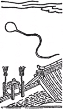 Hitodama (人魂, A fireball ghost that appears when someone dies.) from the Wakan Sansai Zue (和漢三才図会)